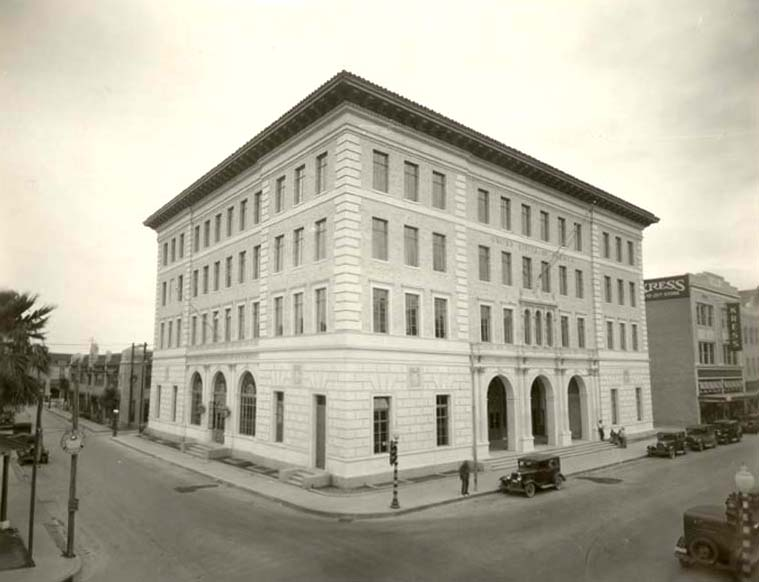 Brownsville, Texas U.S. Court House, Custom House, and Post Office (1933) Completed in 1931. Supervising Architect: James A. Wetmore Building used by the U.S. District Court for the Southern District of Texas. Now Brownsville City Hall.